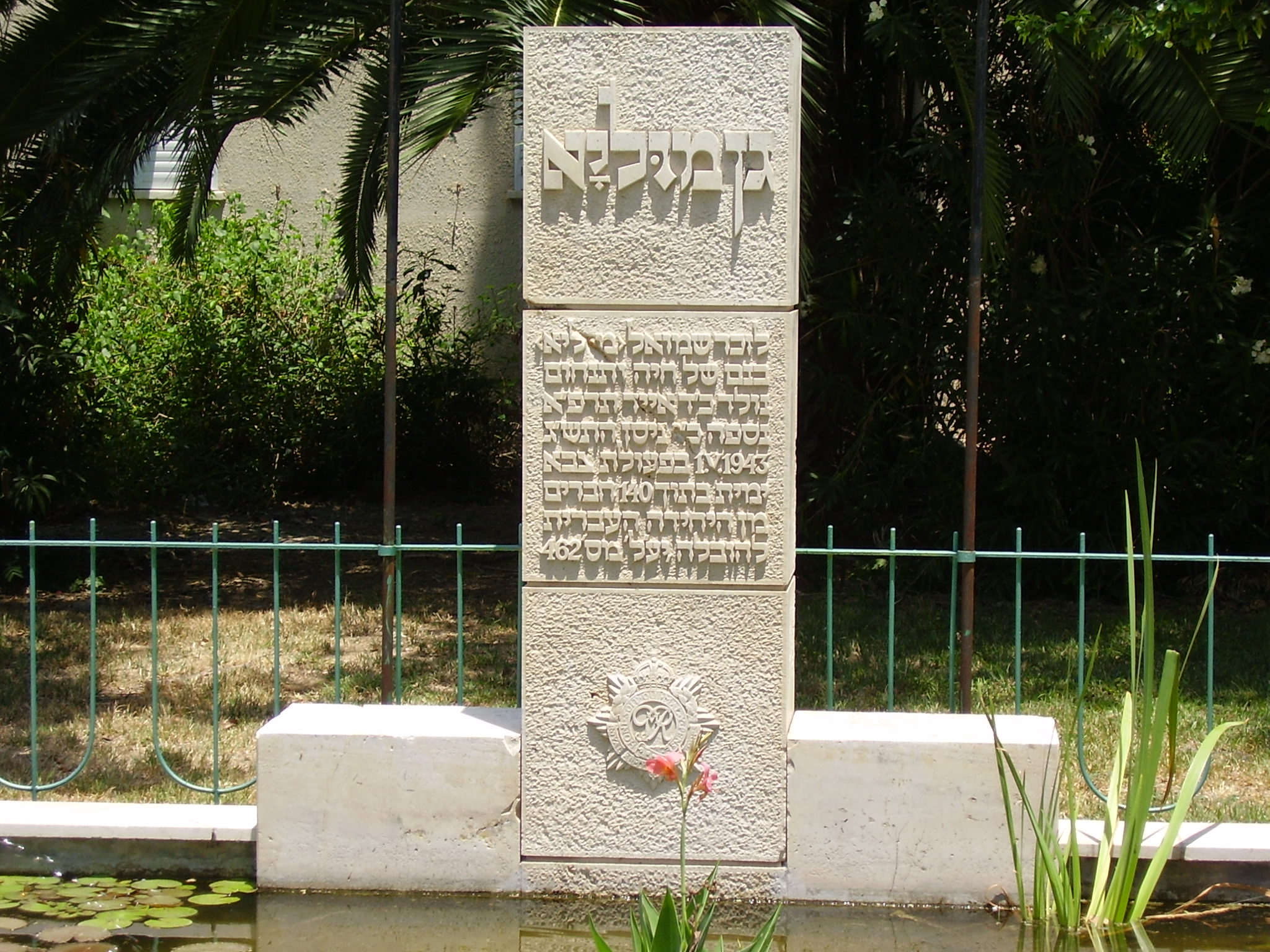 Molia memorial in kibbutz Dgania Alef